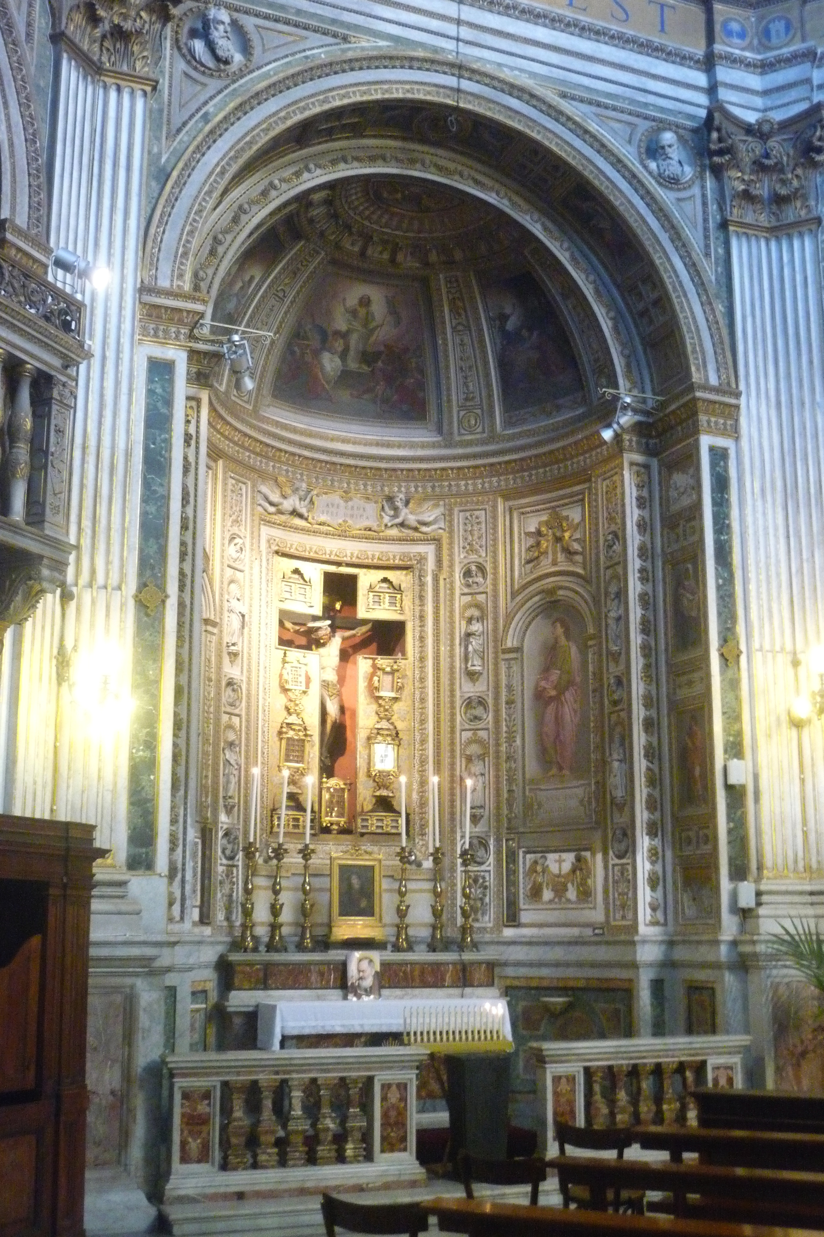 The church of Santa Maria di Loreto in Rome (side altar)